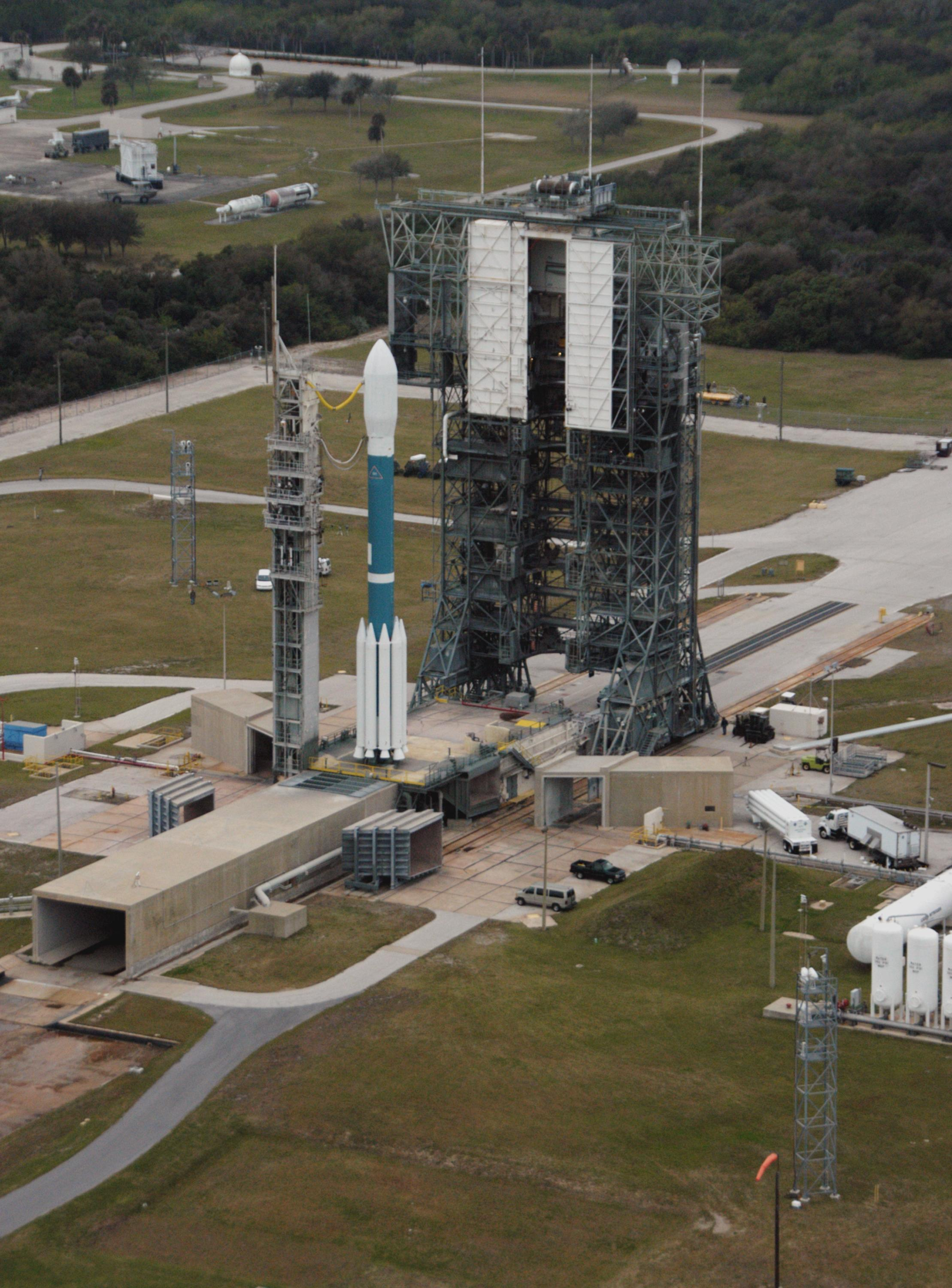 KENNEDY SPACE CENTER, FLA. -- In this close-up aerial view, the Delta II rocket with the THEMIS spacecraft atop sits ready for launch on Pad 17B at Cape Canaveral Air Force Station as the mobile service tower moves away from the pad. THEMIS, an acronym for Time History of Events and Macroscale Interactions during Substorms, consists of five identical probes that will track violent, colorful eruptions near the North Pole. This will be the largest number of scientific satellites NASA has ever launched into orbit aboard a single rocket. The THEMIS mission aims to unravel the mystery behind auroral substorms, an avalanche of magnetic energy powered by the solar wind that intensifies the northern and southern lights. The mission will investigate what causes auroras in the Earth?s atmosphere to dramatically change from slowly shimmering waves of light to wildly shifting streaks of bright color. Launch is scheduled for 6:05 p.m.